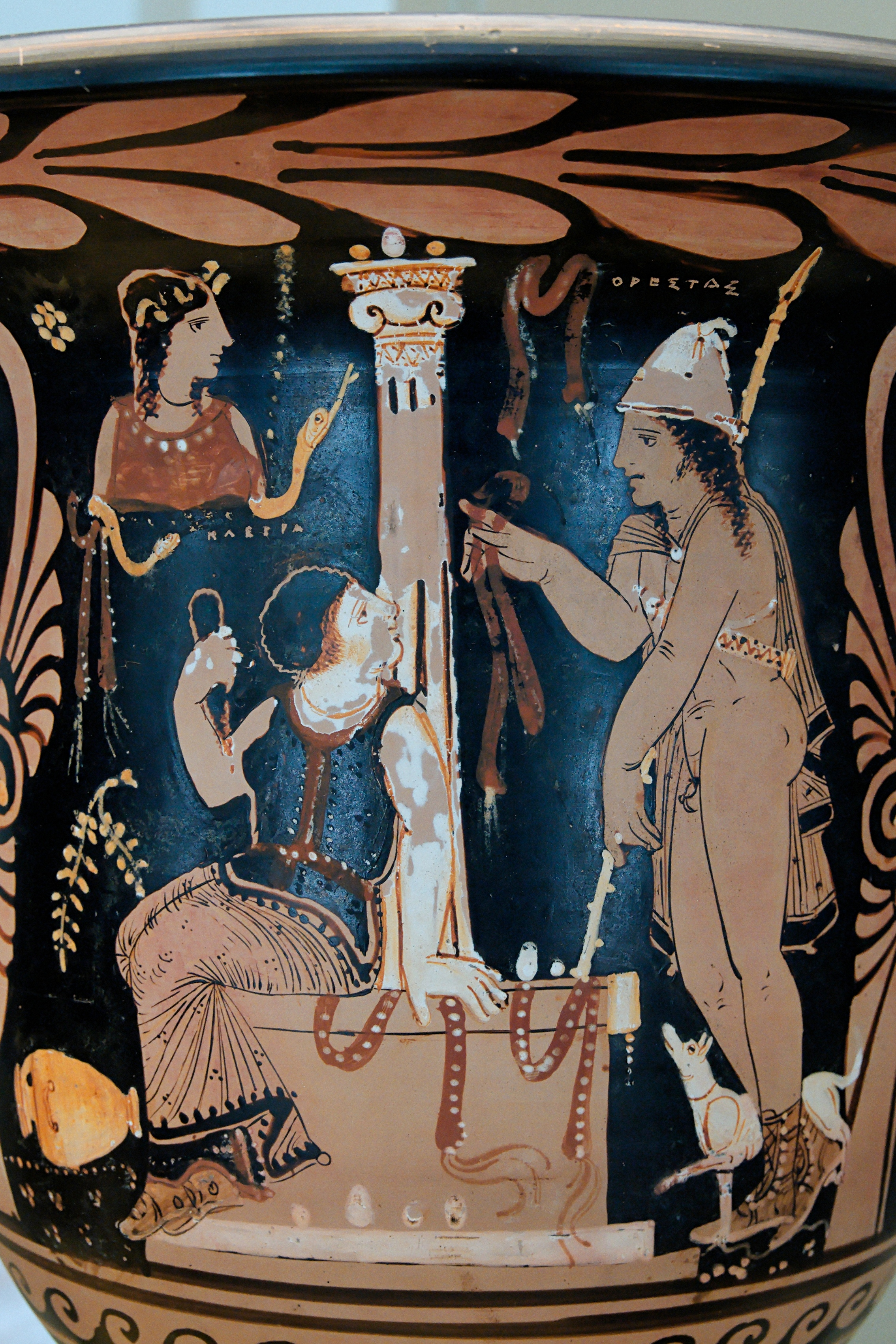 The meeting of Electra and Orestes (both named) at the tomb of Agamemnon. Paestan red-figure bell-krater, 340-330 BC.